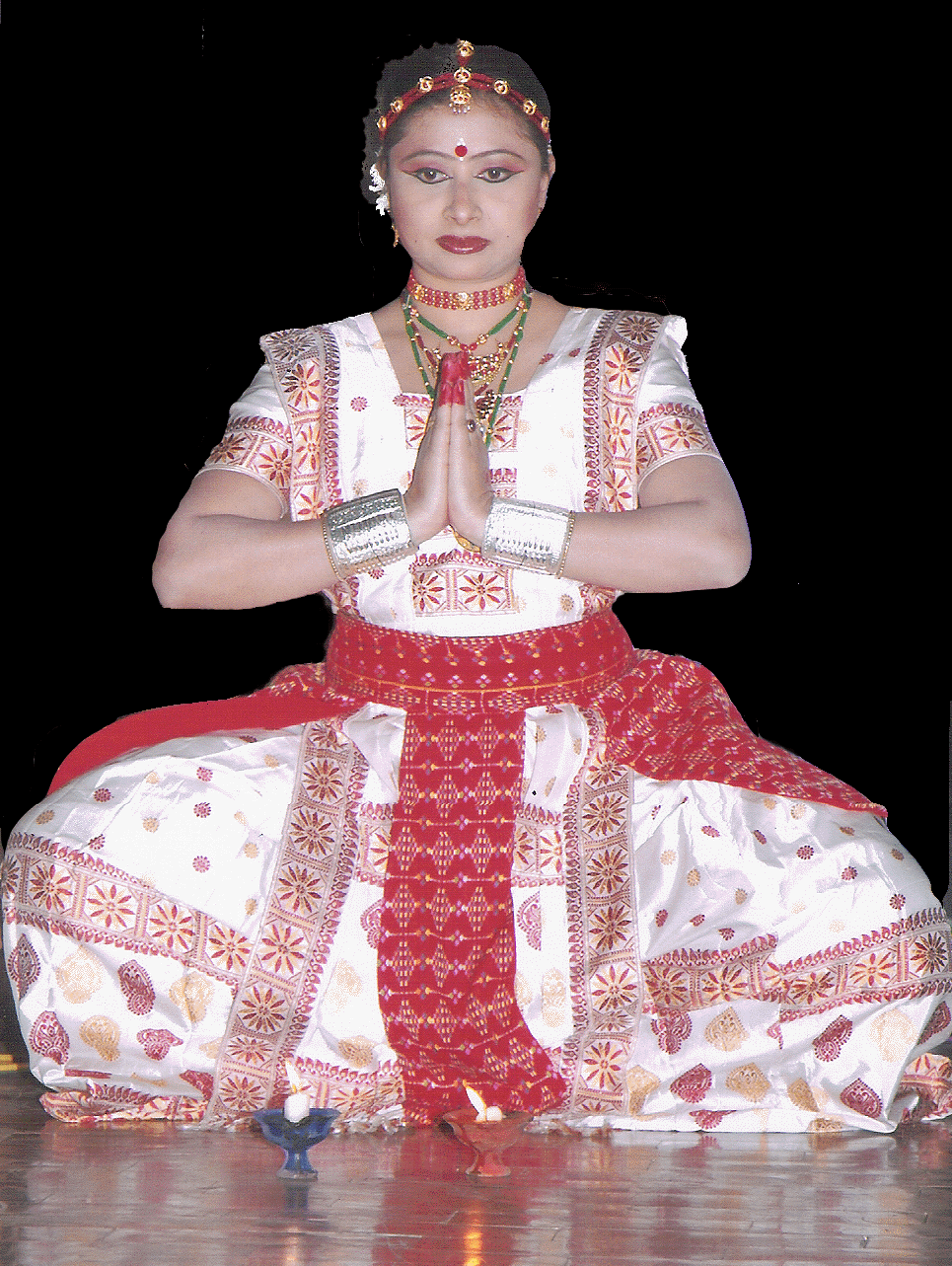 Devika Pulak Borthaur Sattriya Dance of Assam. [1]